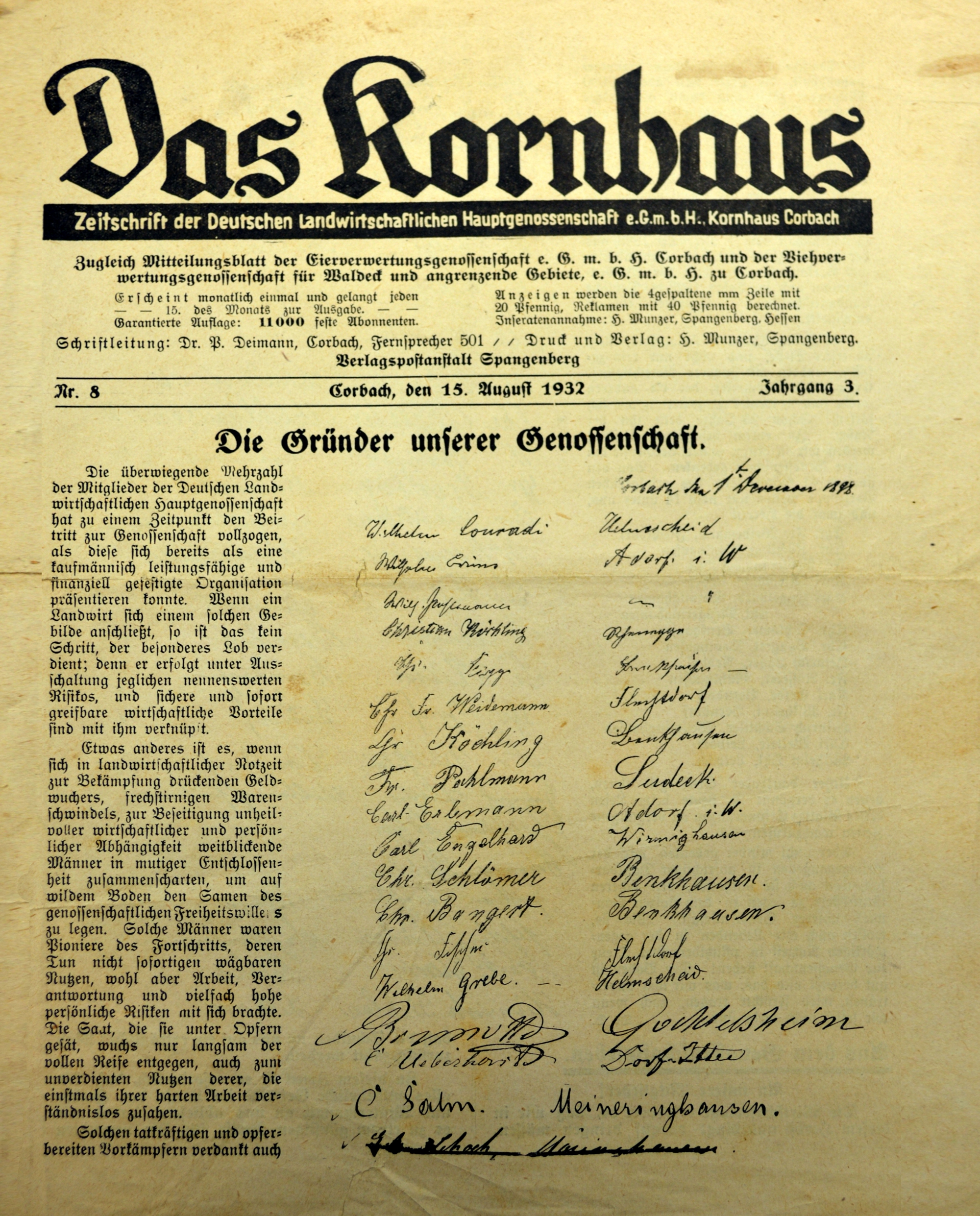 Founder of the association